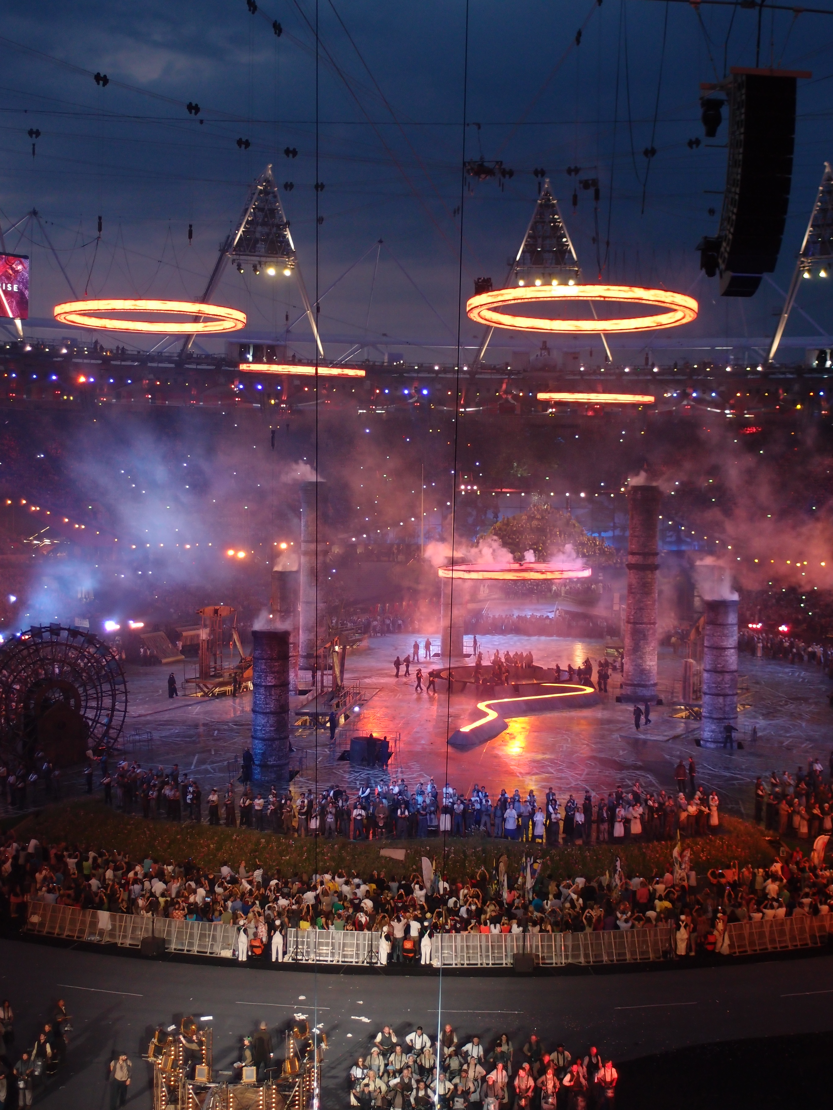 2012 Summer Olympics opening ceremony